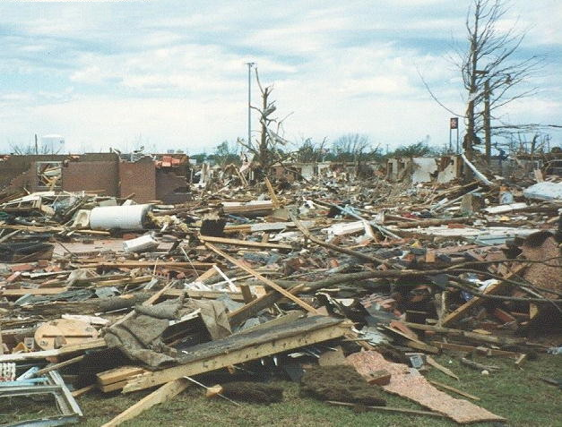 An example of F4 tornado damage. (Damage Scale)